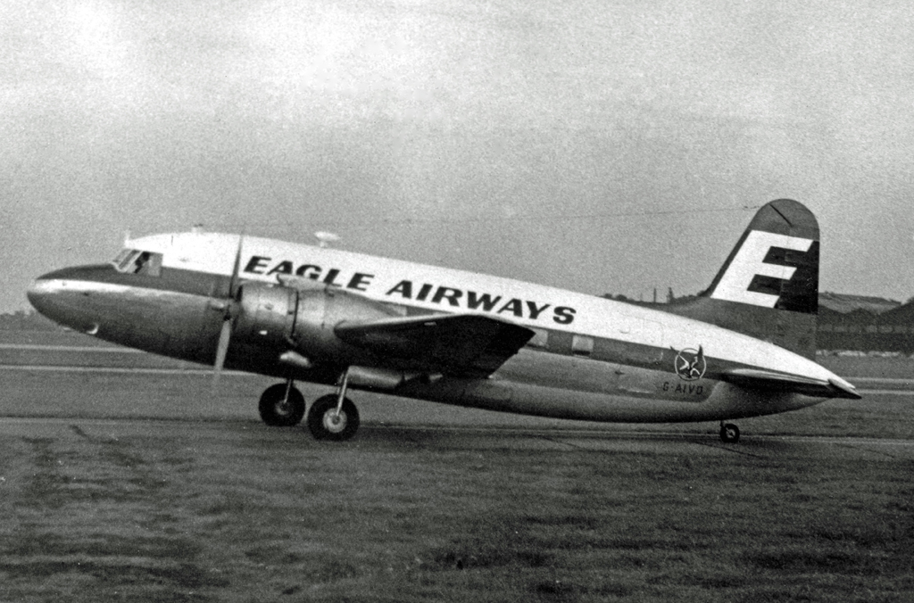 Vickers Viking of Eagle Airways at Manchester (Ringway) Airport